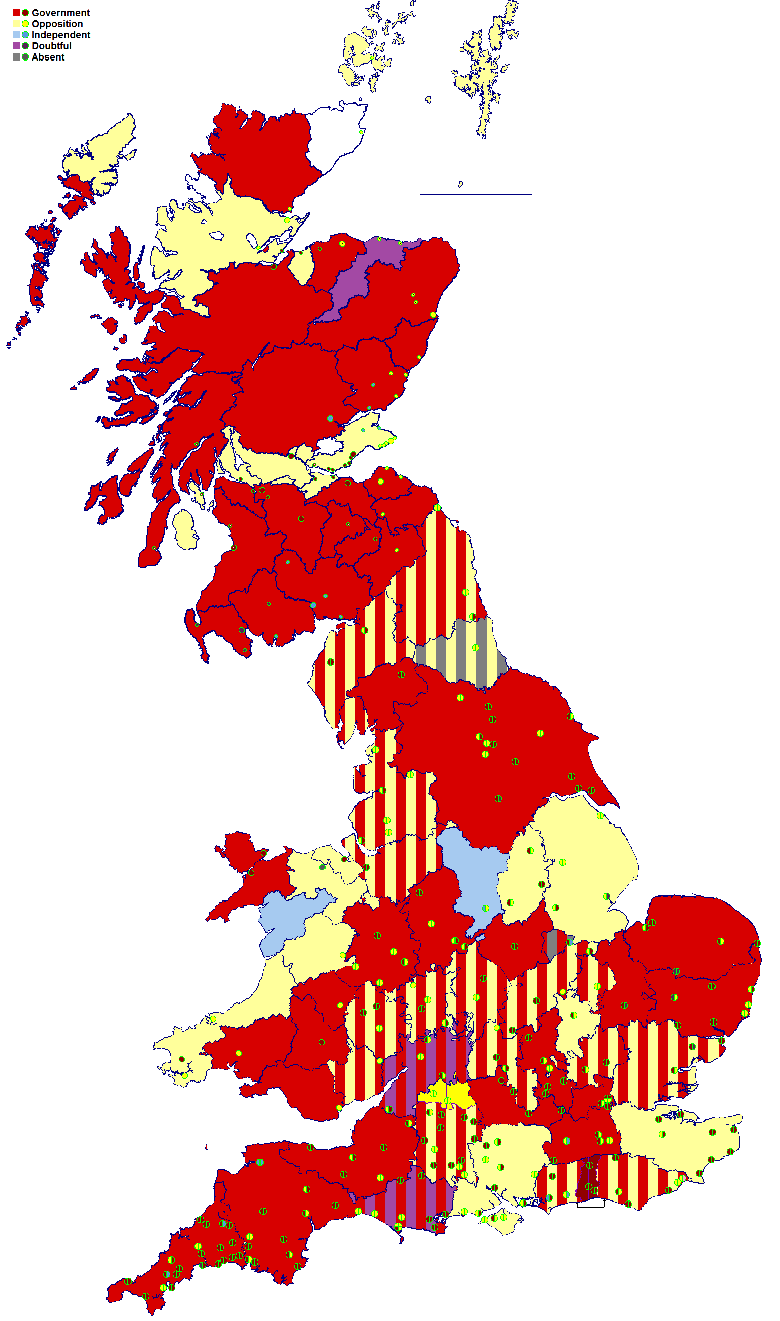 This map shows the results of the 1784 British General Election. Government supporters (supporters of the Prime Minister William Pitt) are shown in scarlet. Opposition supporters (including supporters of Charles James Fox and Lord North) are shown in buff.